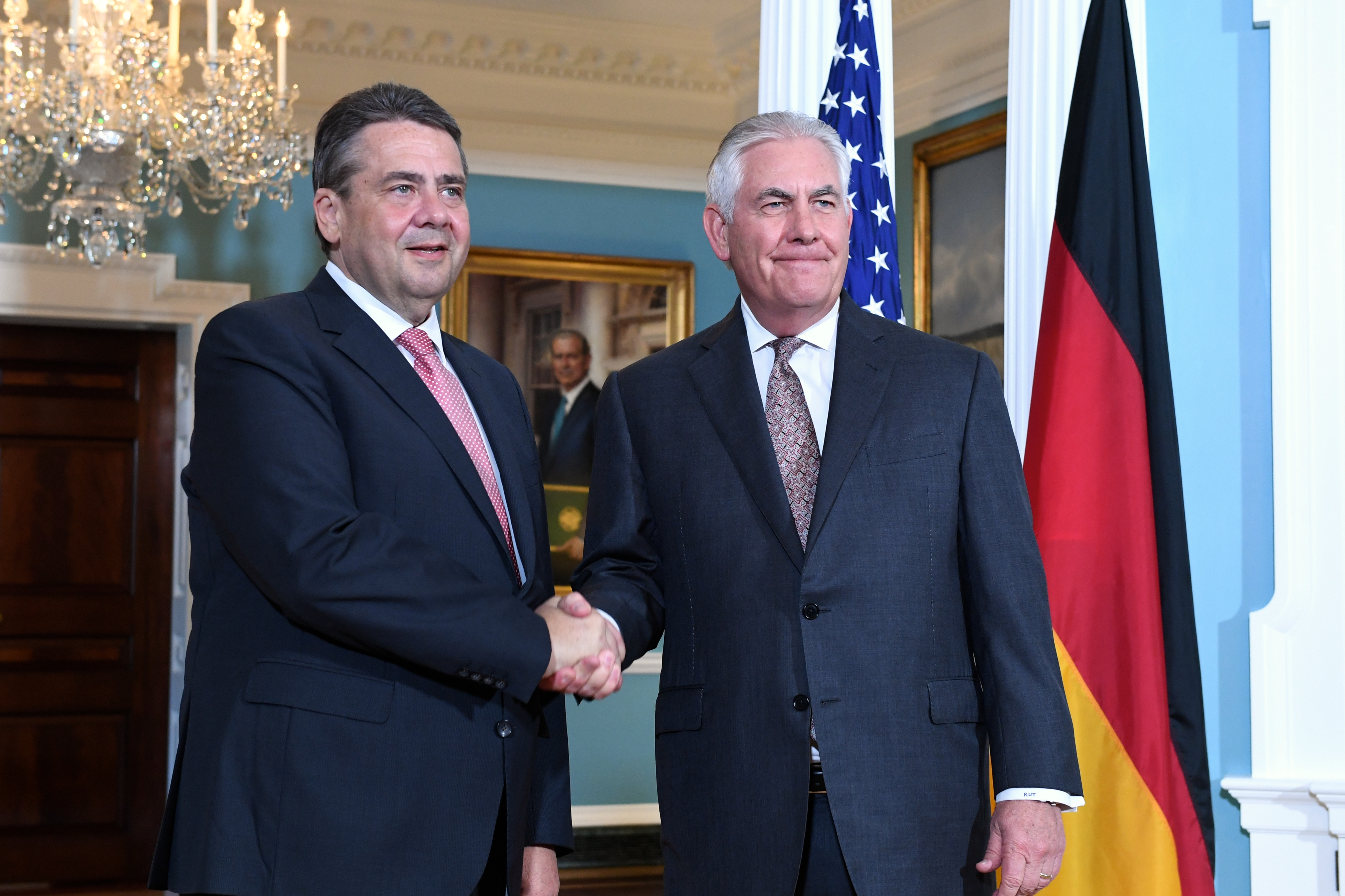 U.S. Secretary of State Rex W. Tillerson meets with German Foreign Minister Sigmar Gabriel, at the Department of State, May 17, 2017. [State Department photo/ Public Domain]